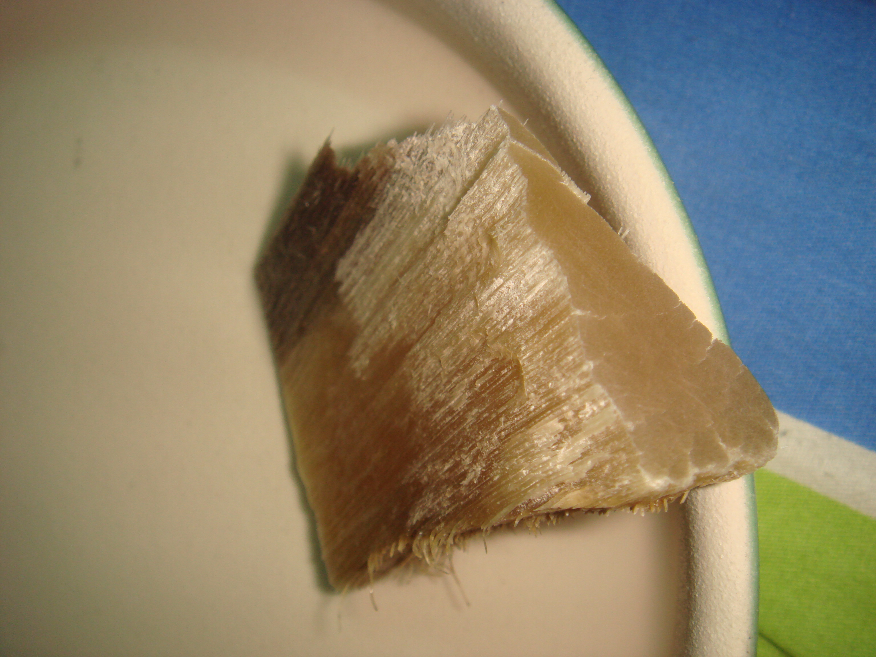 A supposedly rhinoceros' horn with a plate used to grind to powder.